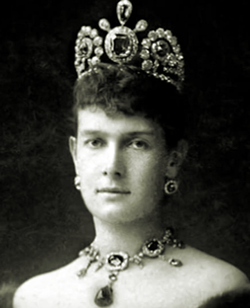 Duchess Marie of Mecklenburg-Schwerin, 1870s